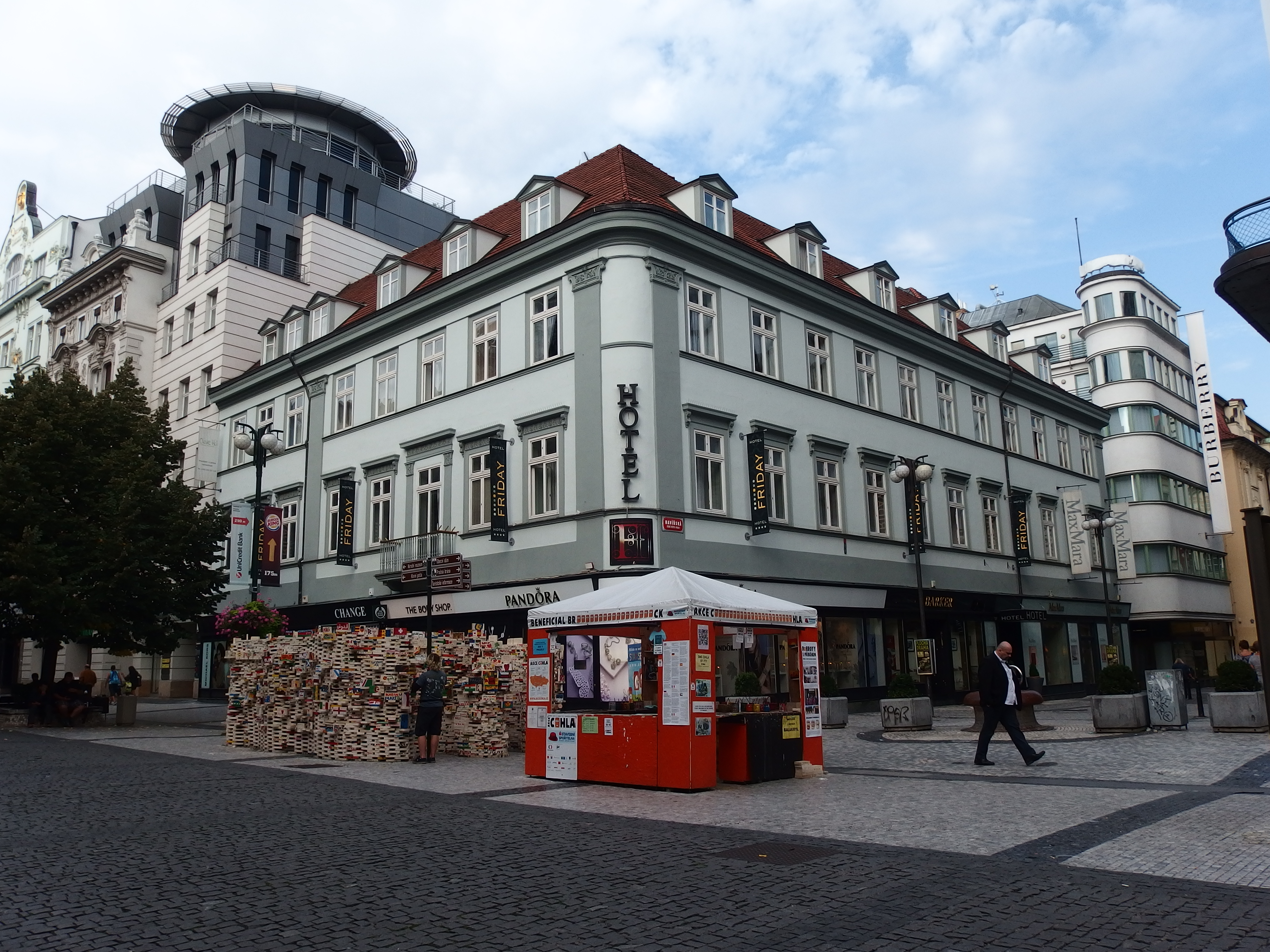 Prague, Czech Republic.